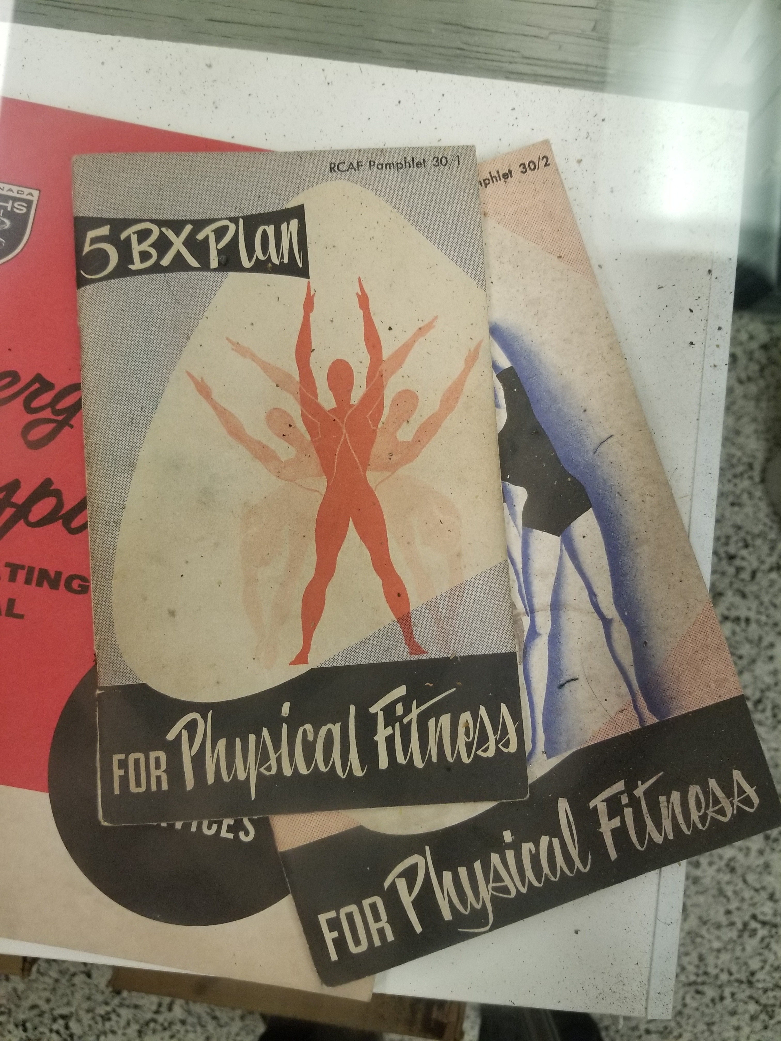 Copy of original 5BX and XBX booklets on display at the Diefenbunker museum, June 2018.